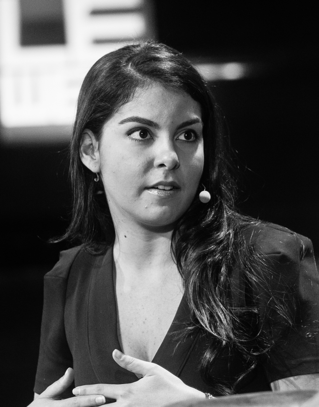 Caroline Ghosn, Co-Founder & CEO, The Levo League & MG Siegler, General Partner, CrunchFund @ LeWeb London 2012 Central Hall Westminster-1637